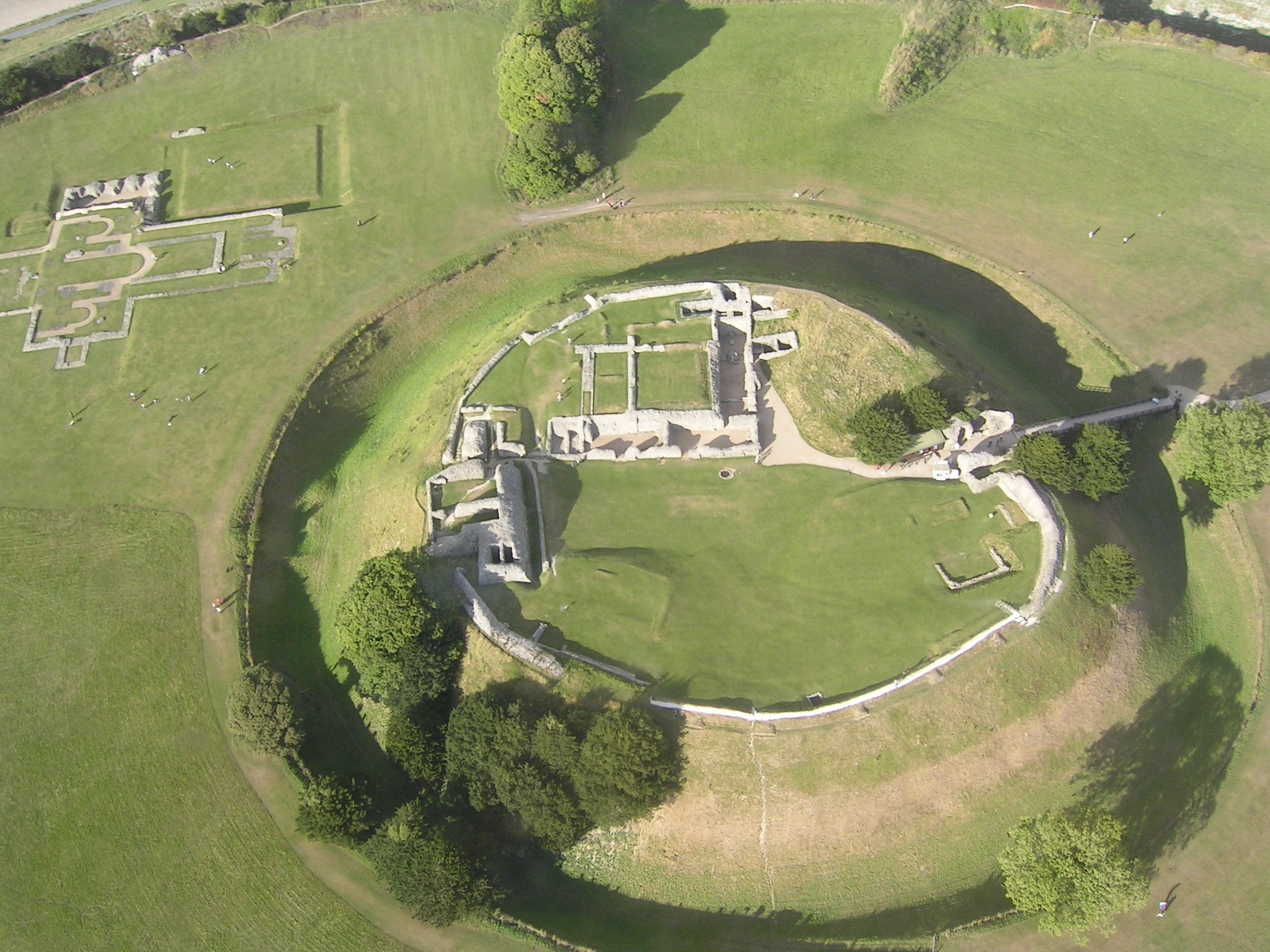 Old Sarum Wikidata has entry Q782719 with data related to this item.